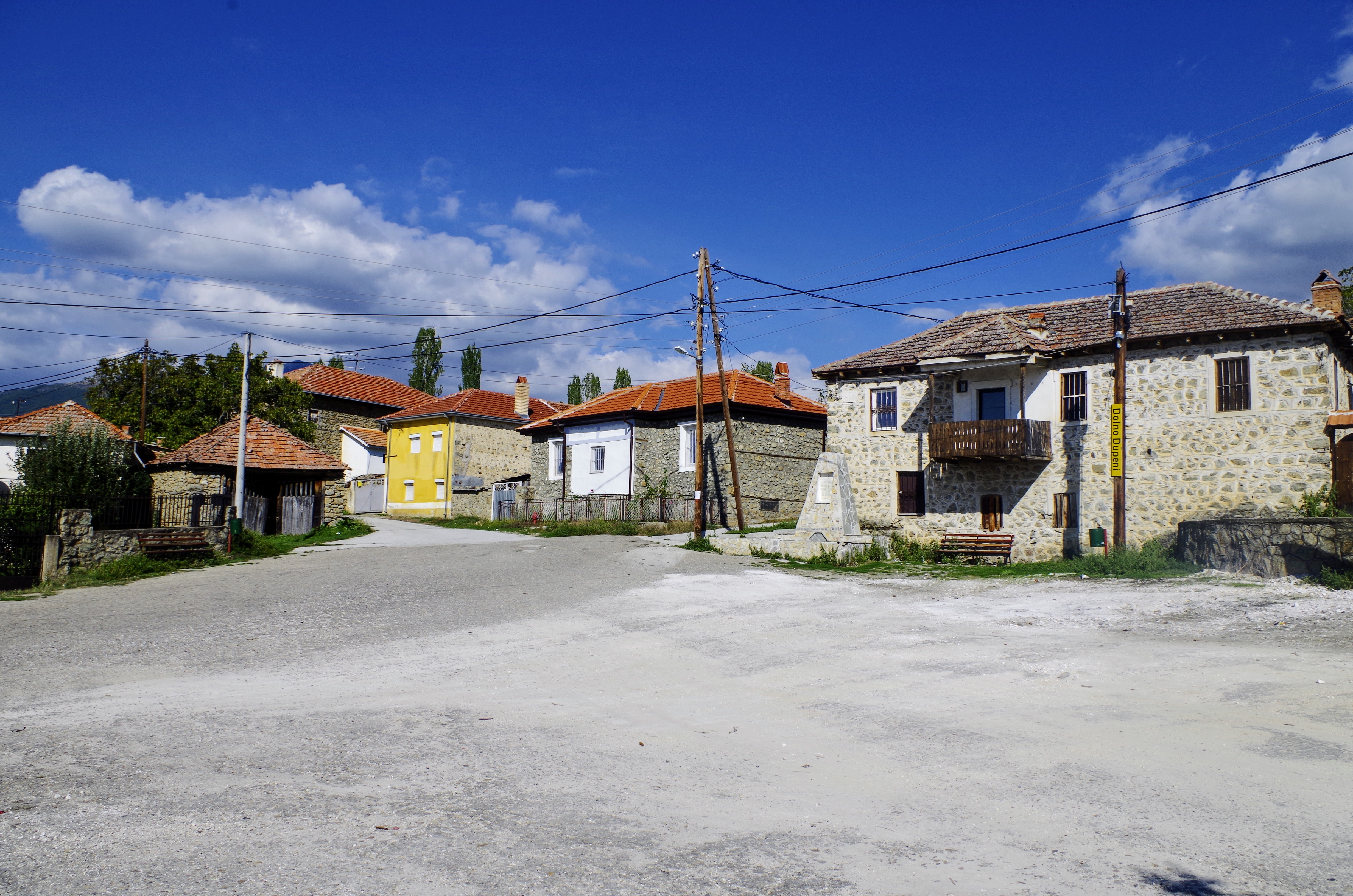 View of the old houses in the village Dolno Dupeni